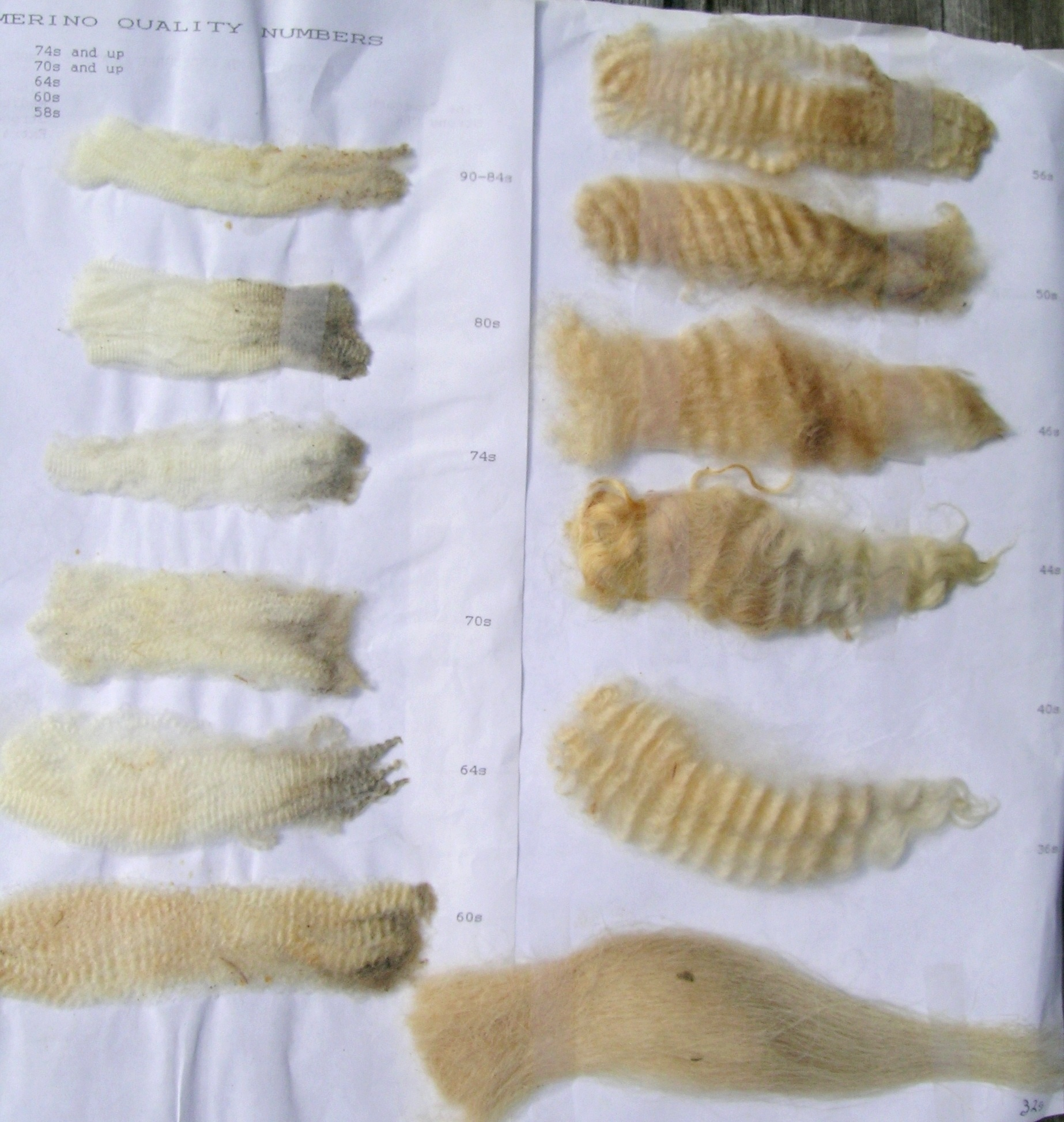 Wool staples: Merino wool qualities on the left and crossbred on right. The staples have yellowed because of their age.